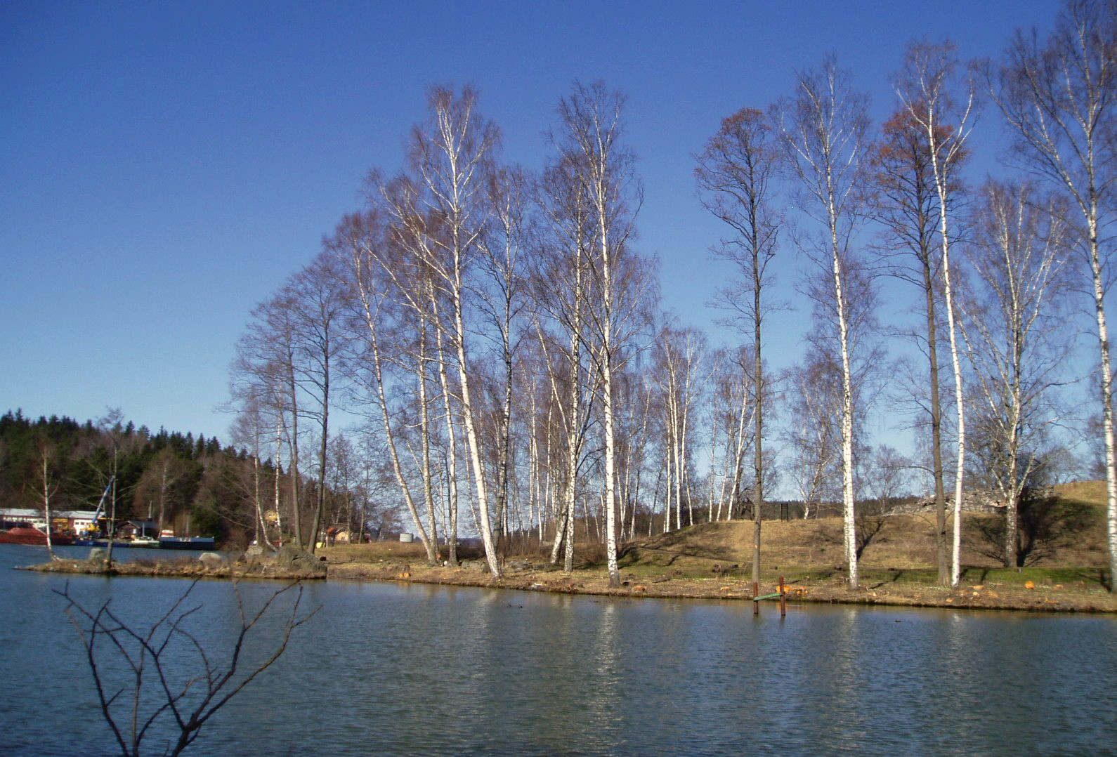 Slottsholmen, island at Södertälje, Sweden